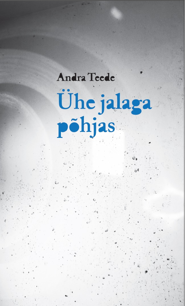 Andra Teede